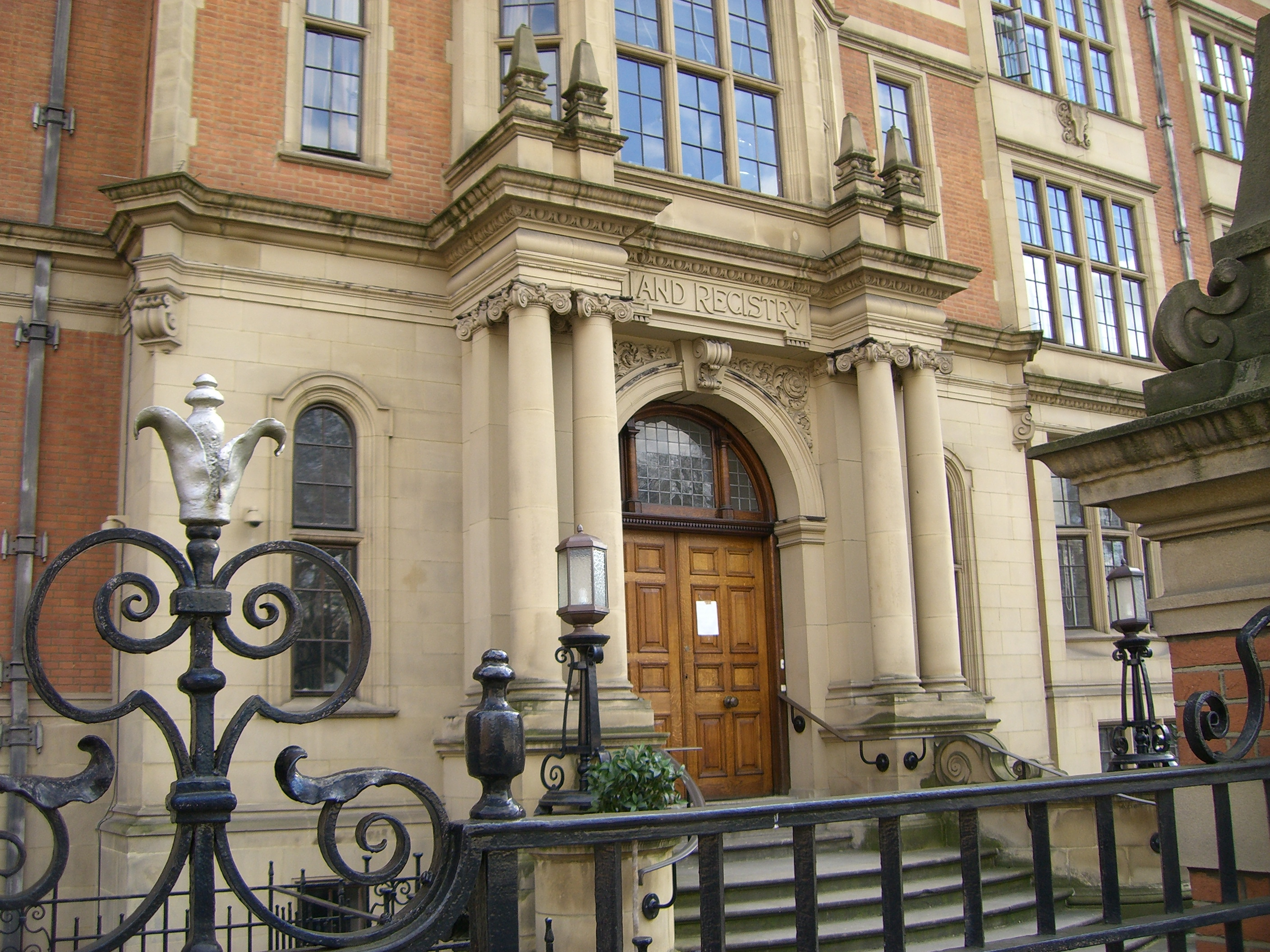 HM Land Registry, 32 Lincoln's Inn Fields, London WC2A 3PH Photo taken by User:Edward on 19 March 2006 with a Casio EX-S600.